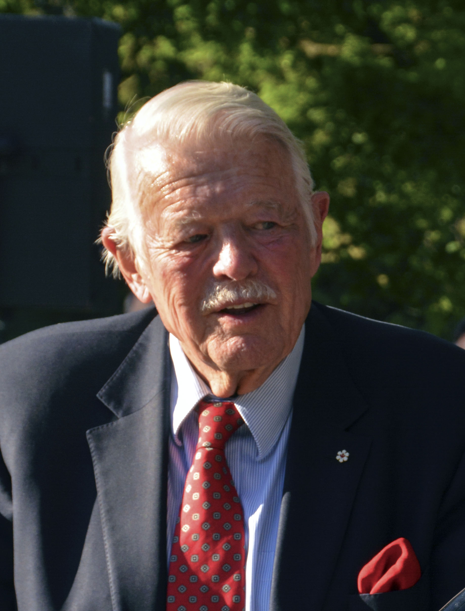 Dr. James D. Fleck at the 2017 CFC Annual Garden Party